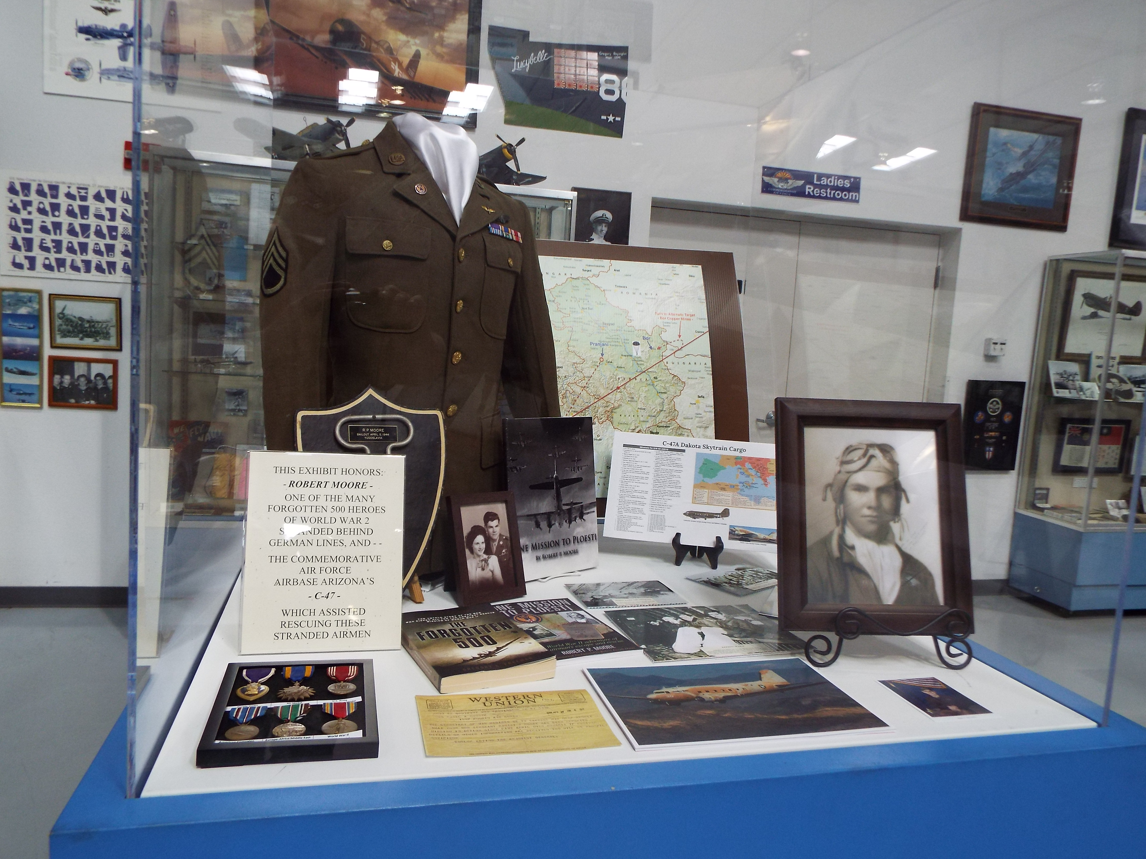 Mesa-Arizona Commemorative Air Force Museum-Robert P. Moore exhibit